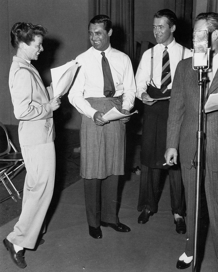 Katharine Hepburn, Cary Grant & James Stewart perform The Philadelphia Story for the Victory Theater radio program in 1942.